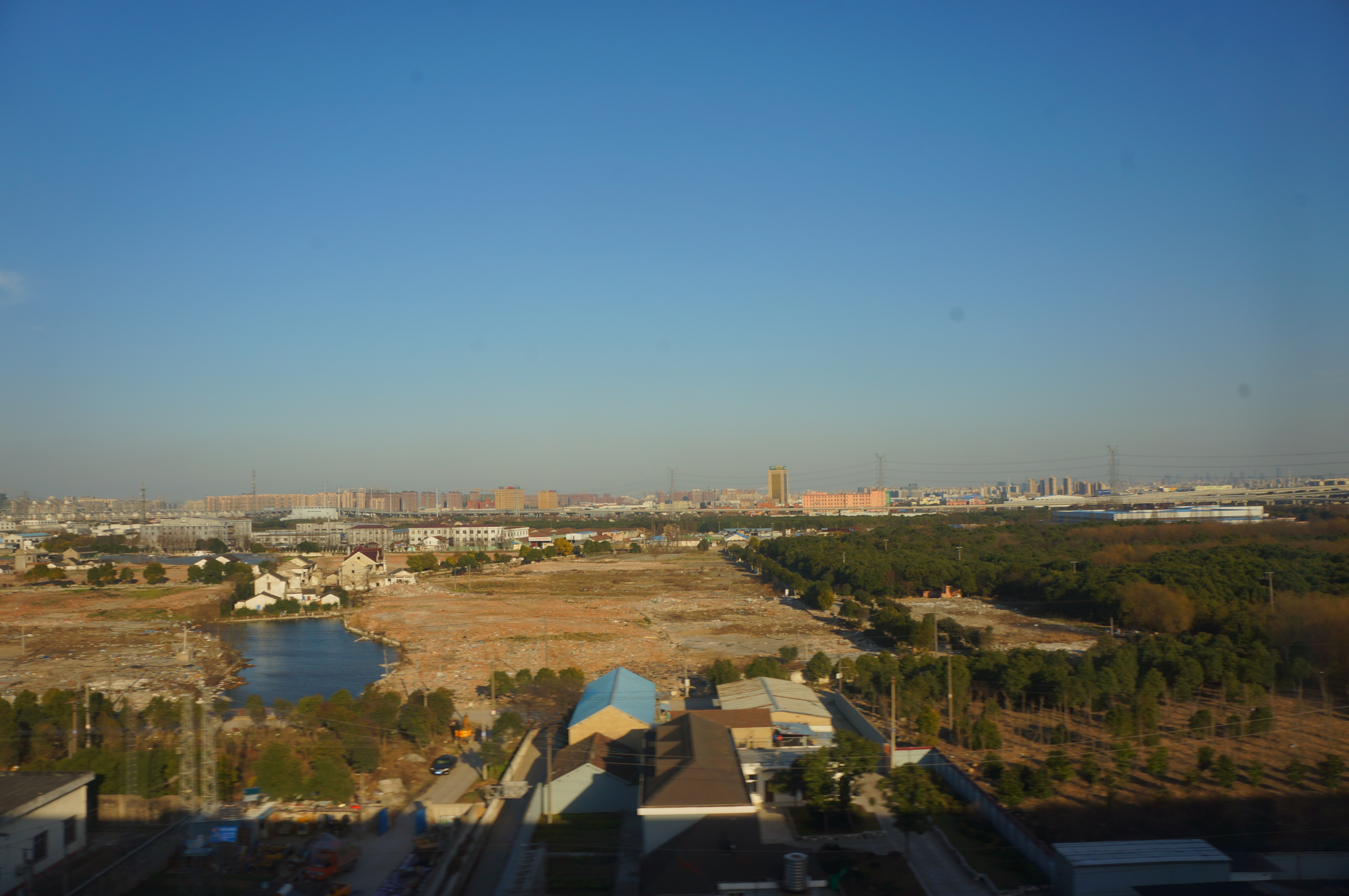 201701 Jiangqiao Shanghai, Fengbang was annexed by Jiangqiao.